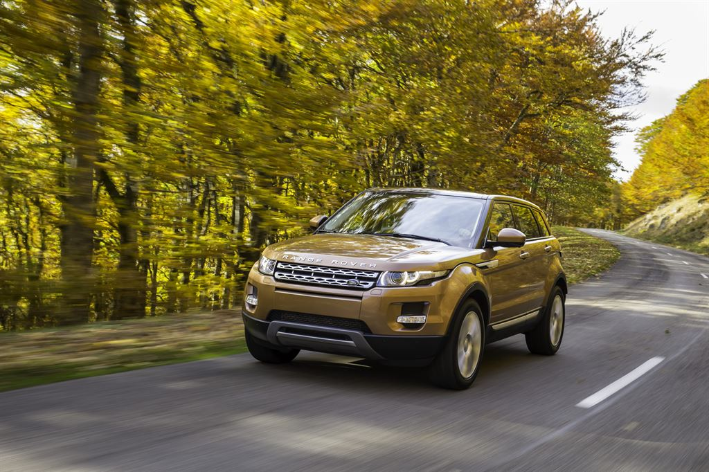 One of the most successful Land Rover vehicles ever made, the Range Rover Evoque, makes a further leap forward with the introduction of a host of new technologies. These enhancements lower fuel consumption by up to 11.4 percent and reduce CO2 emissions by up to 9.5 percent - depending on model - and bring a range of new comfort, convenience and connectivity features.